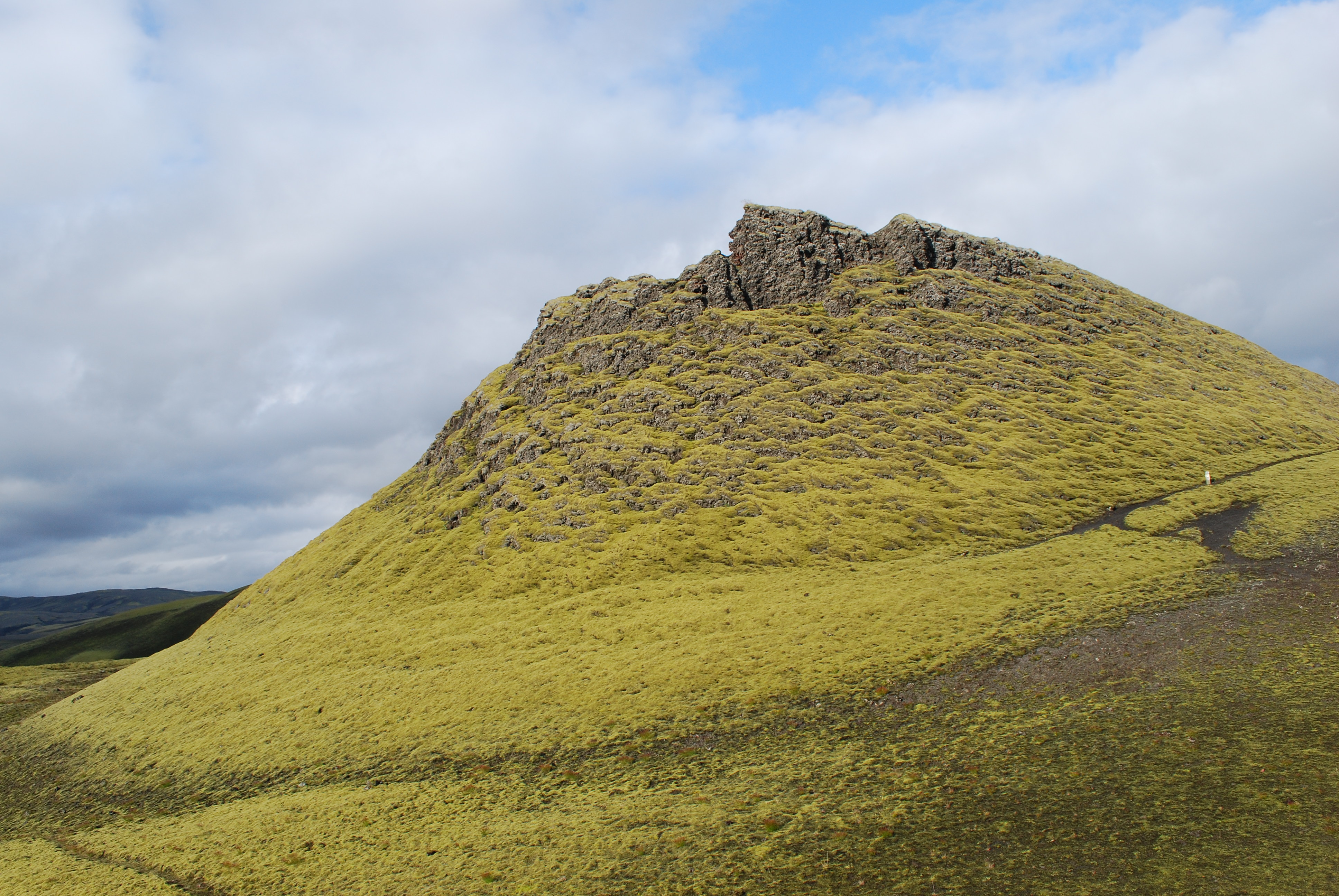 Cinder cone near Laki volcano, Iceland